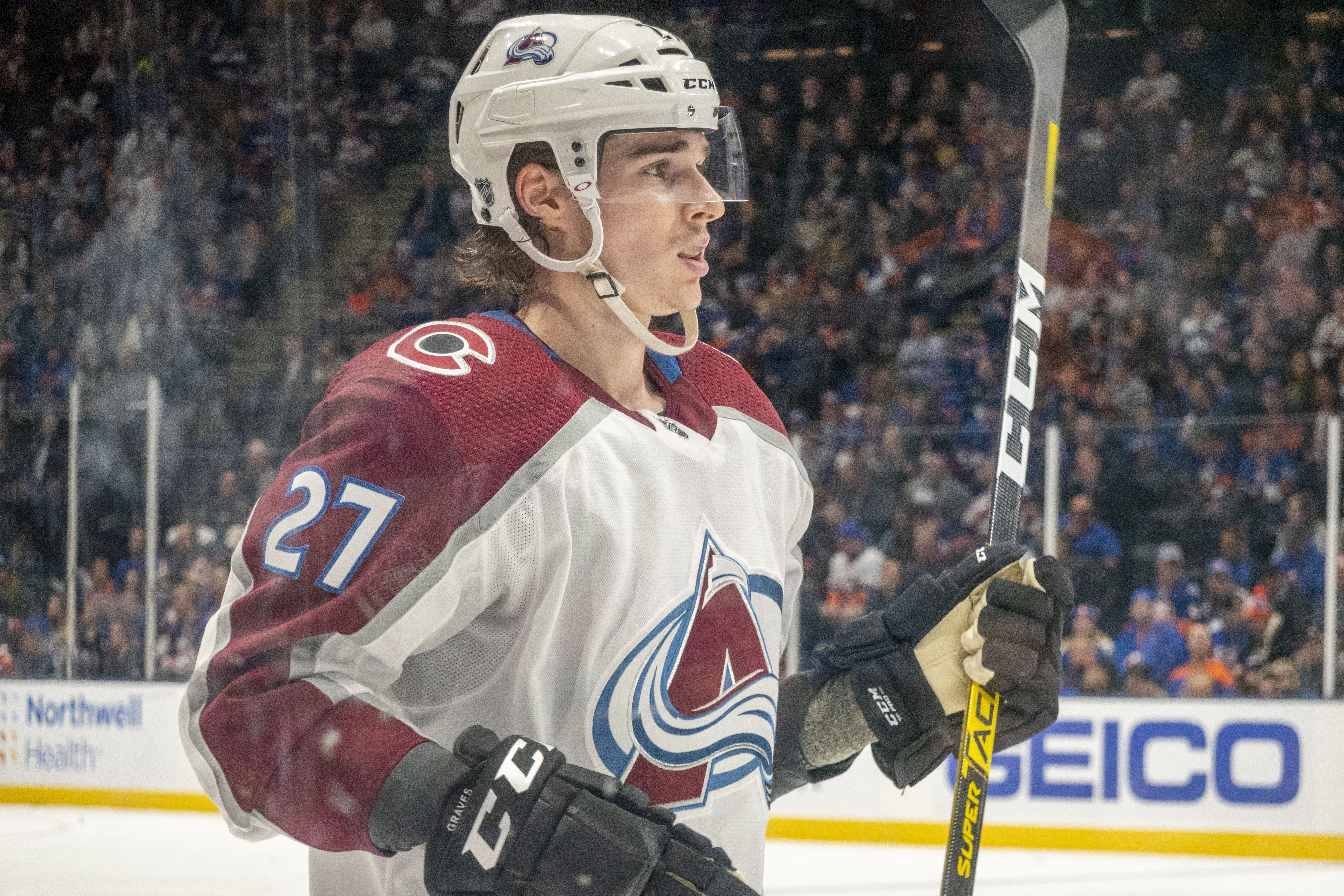 Ryan Graves playing with the Avalanche vs Islanders on January 6, 2020